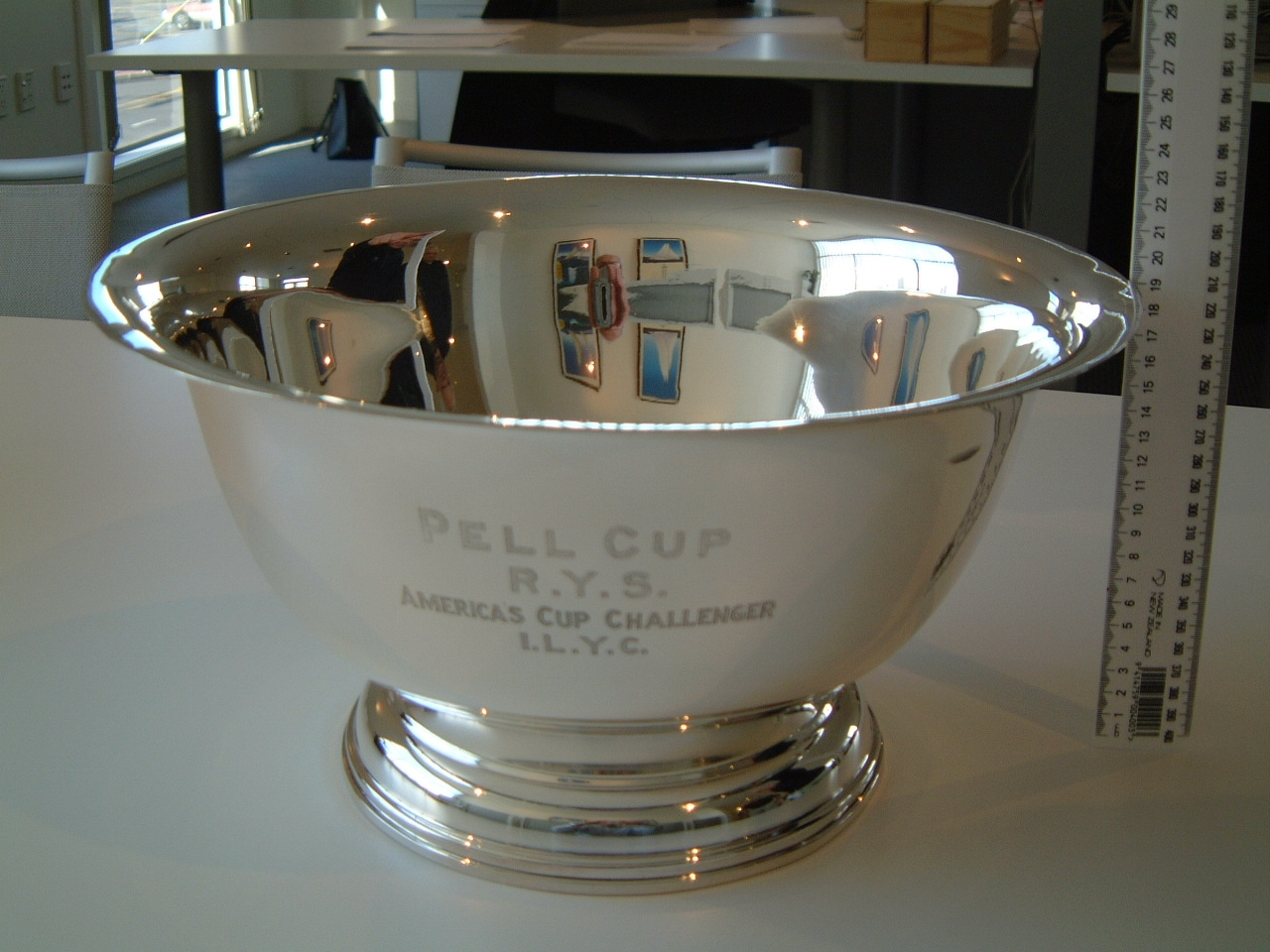 Pell Cup